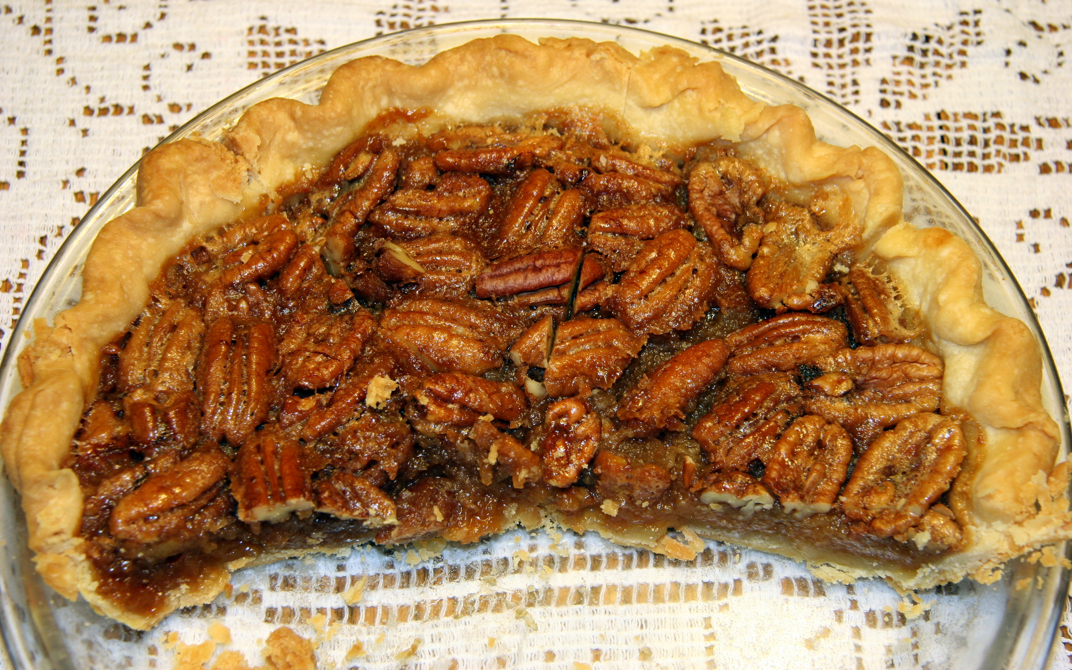 Half of a homemade pecan pie in a glass baking dish, served at a Thanksgiving dinner in the United States.